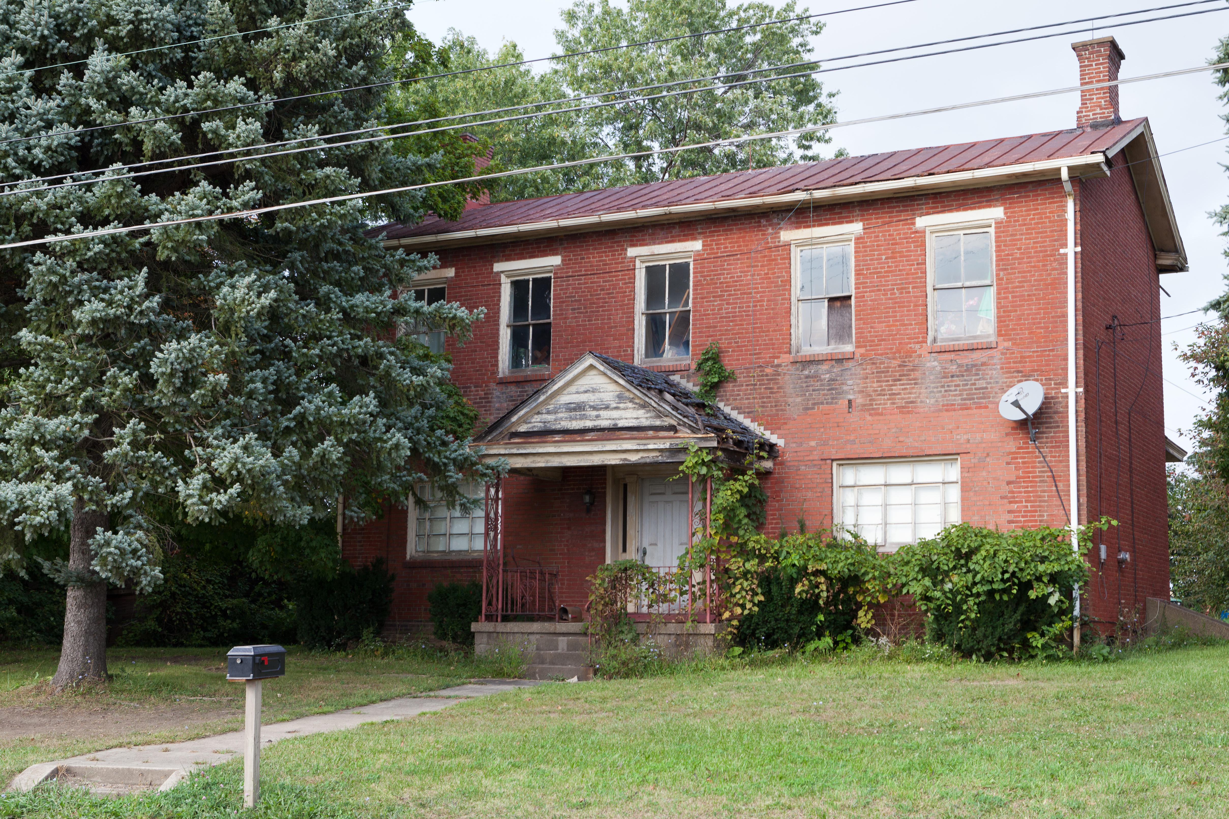 Doak-Little House, built c.1850 along the National Road, South Strabane Township, Pennsylvania.